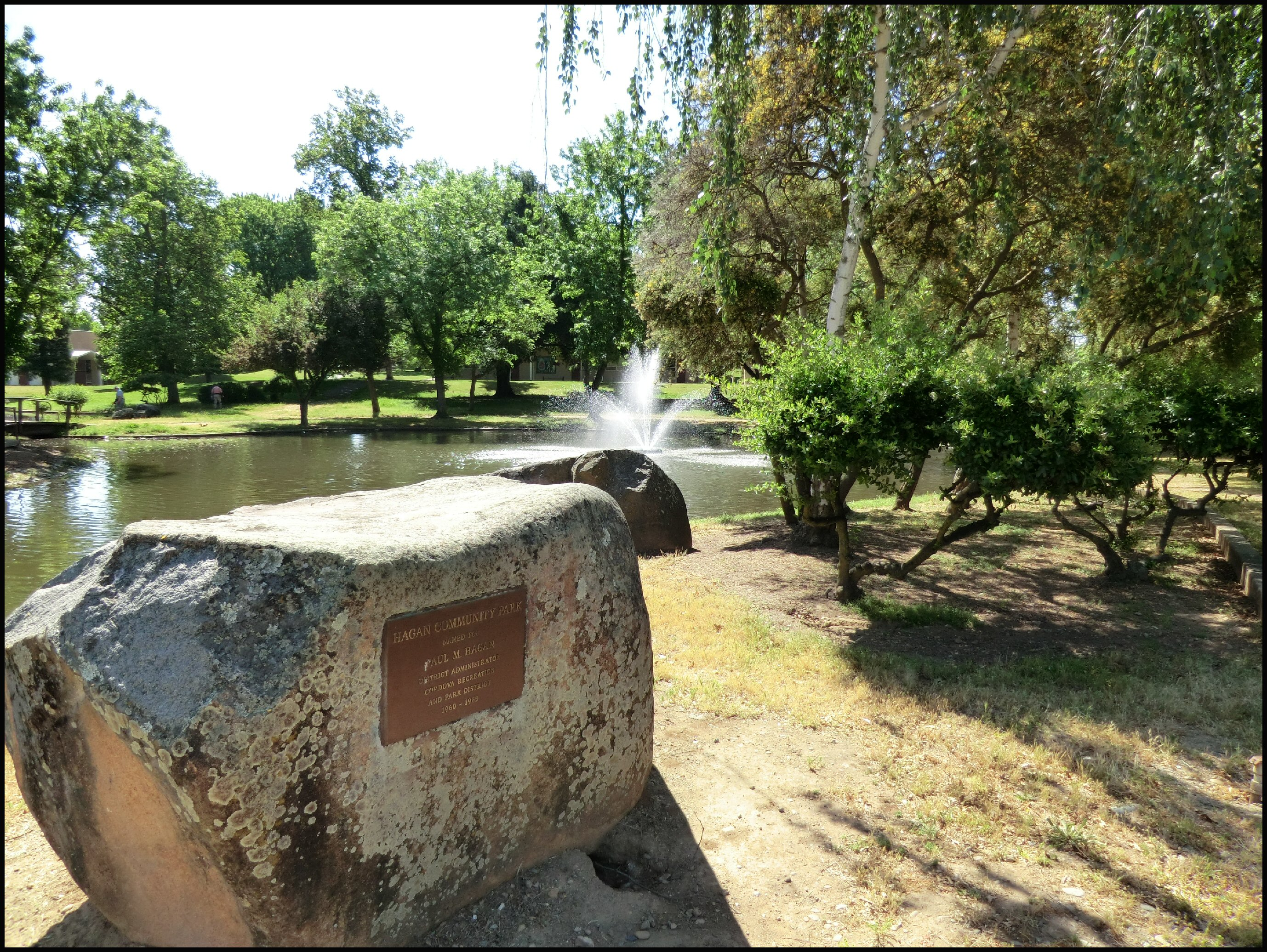 Hagan Park Rancho Cordova 83